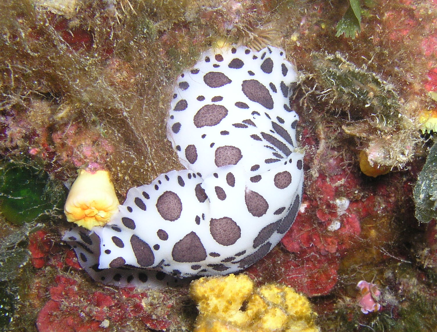 Peltodoris atromaculata Bergh, 1880 (synonym: Discodoris atromaculata)